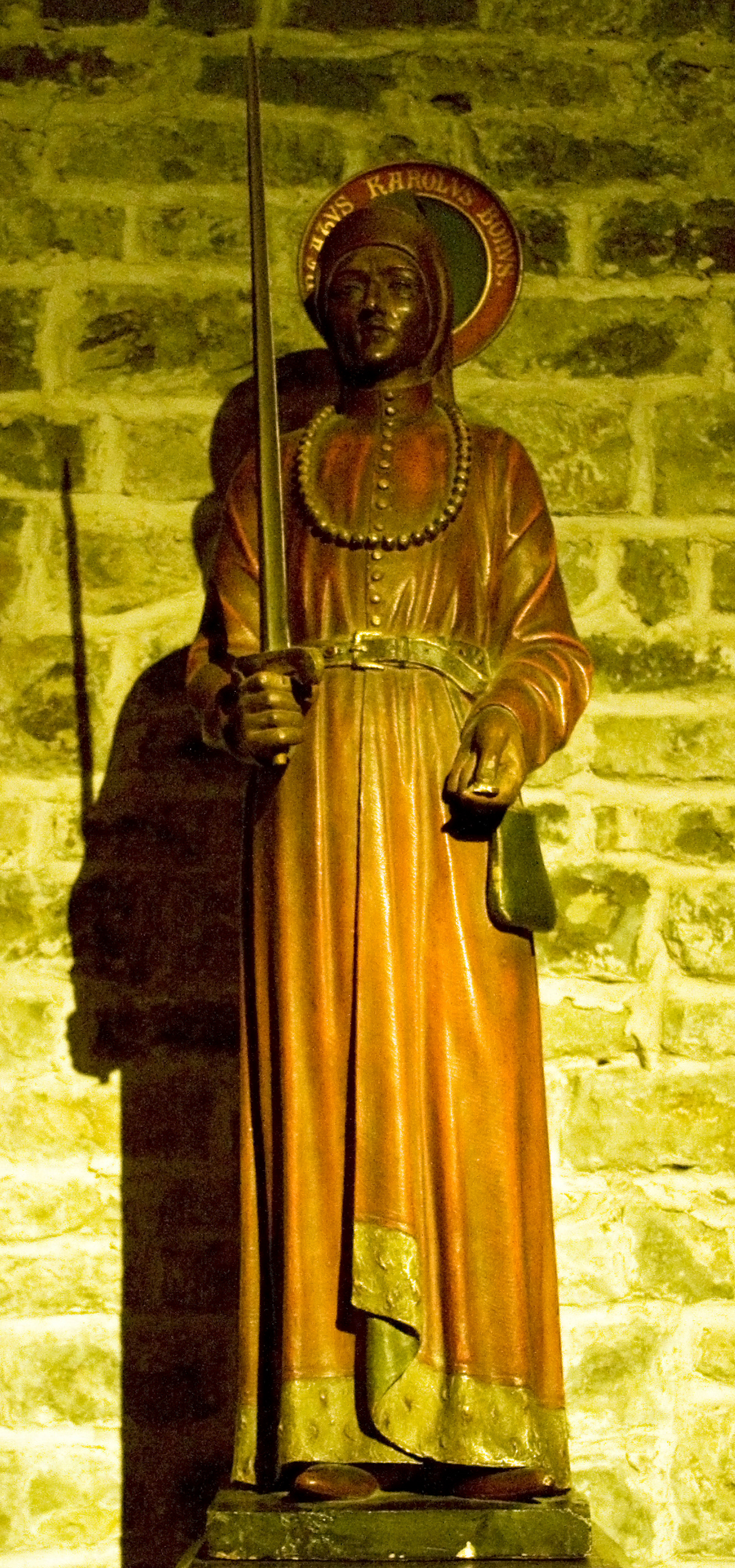 Statue of Blessed Charles the Good